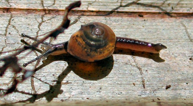 Photo of live Ovachlamys fulgens